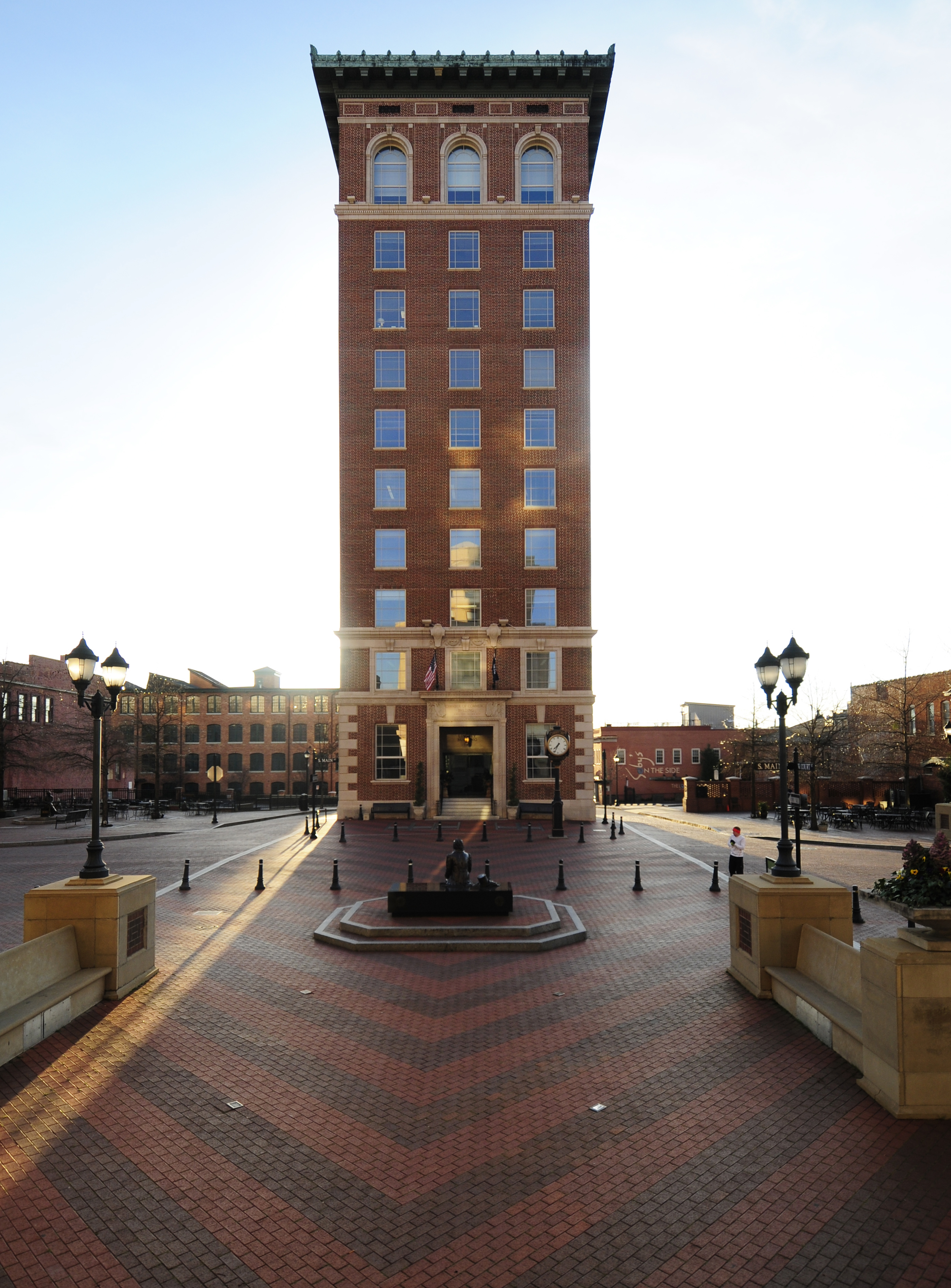 Chamber of Commerce Building